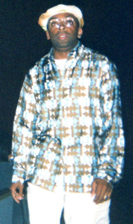 Director Spike Lee at the June 24, 2004 New York City premiere of his film, She Hate Me. This photo was created by Luigi Novi. It is not in the public domain, and use of this file outside of the licensing terms is a copyright violation.